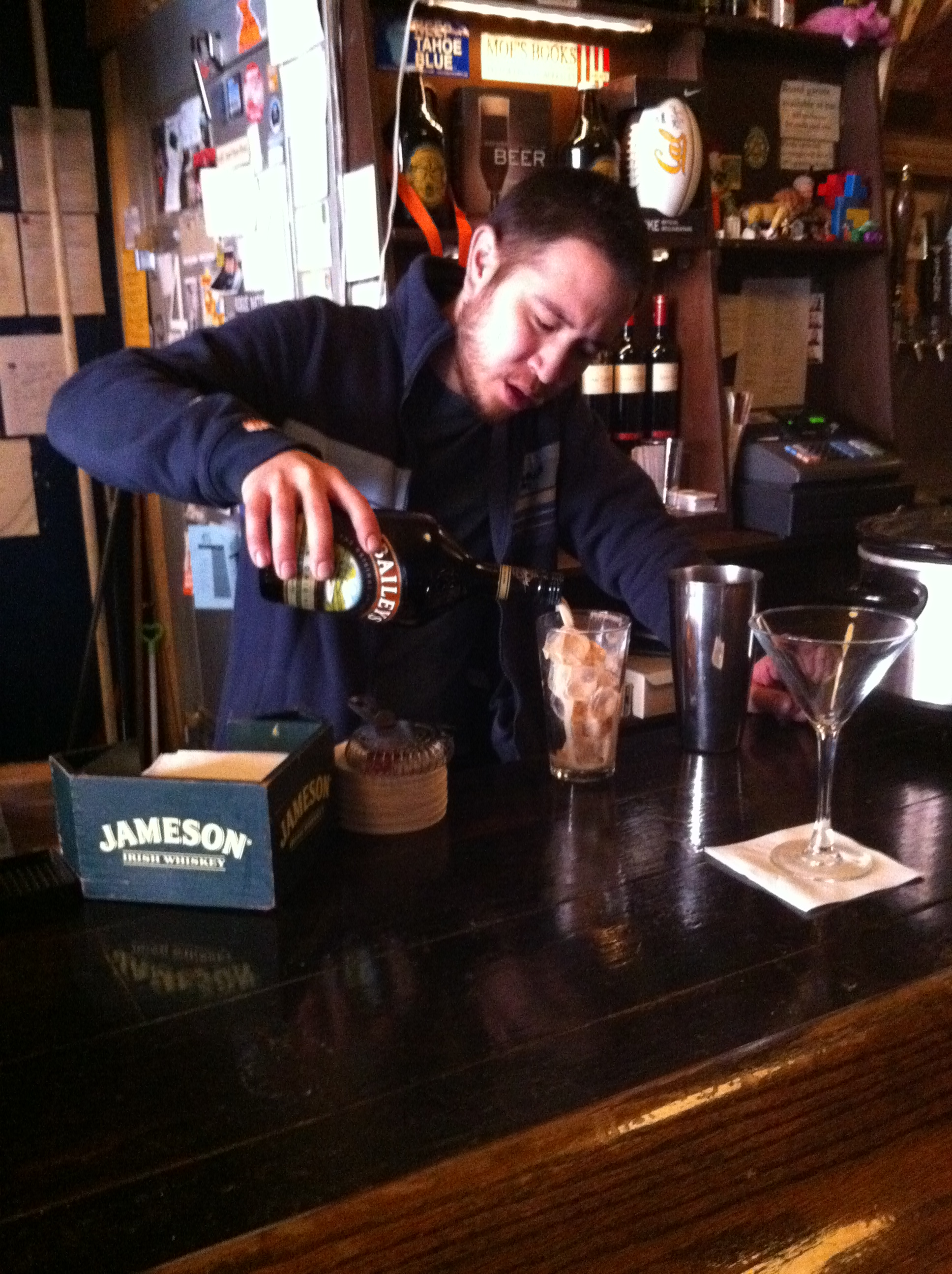 Pacific Standard bar owner Jonathan M. Stan at the bar, preparing the Santorum cocktail drink.